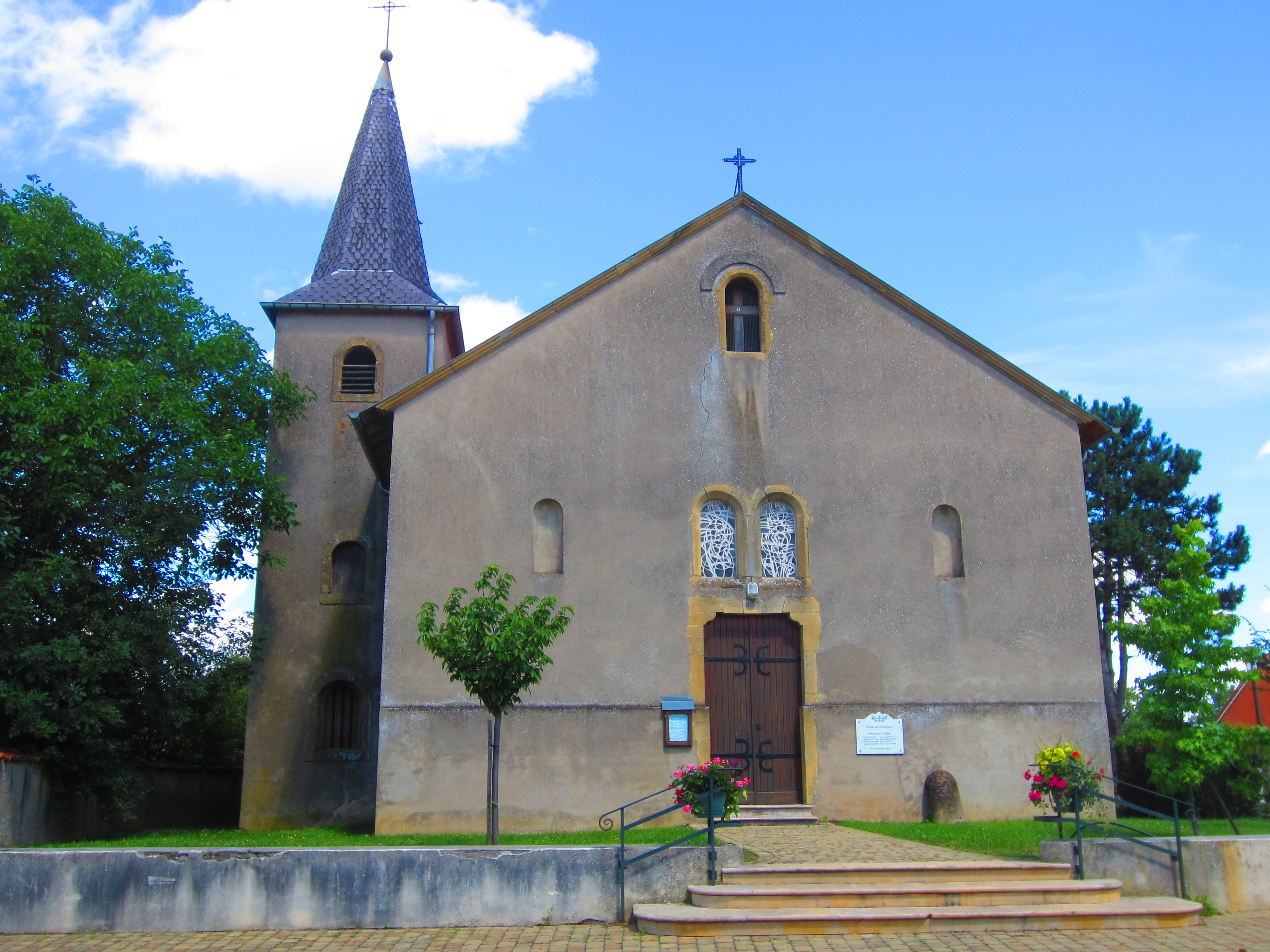 Pommerieux church